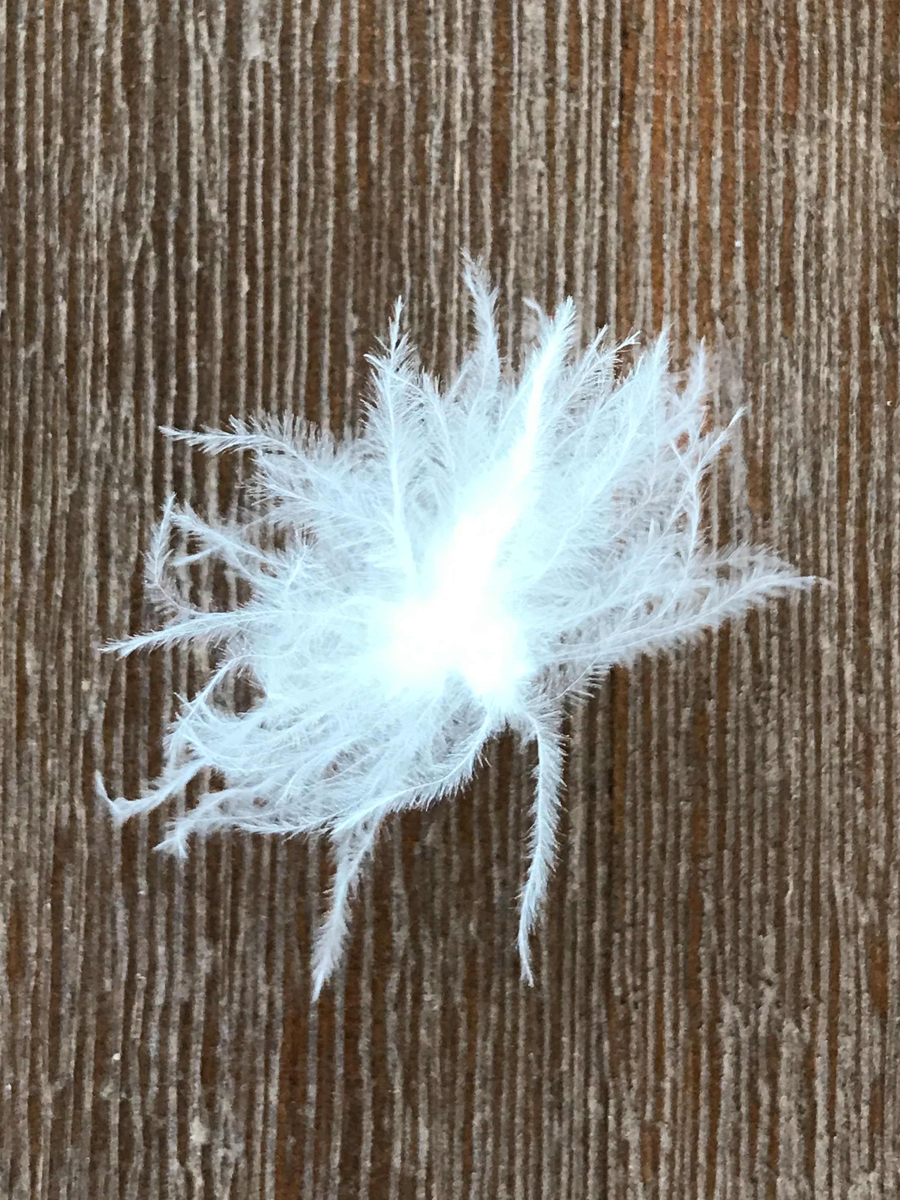 powder down of a ducorps cockatoo